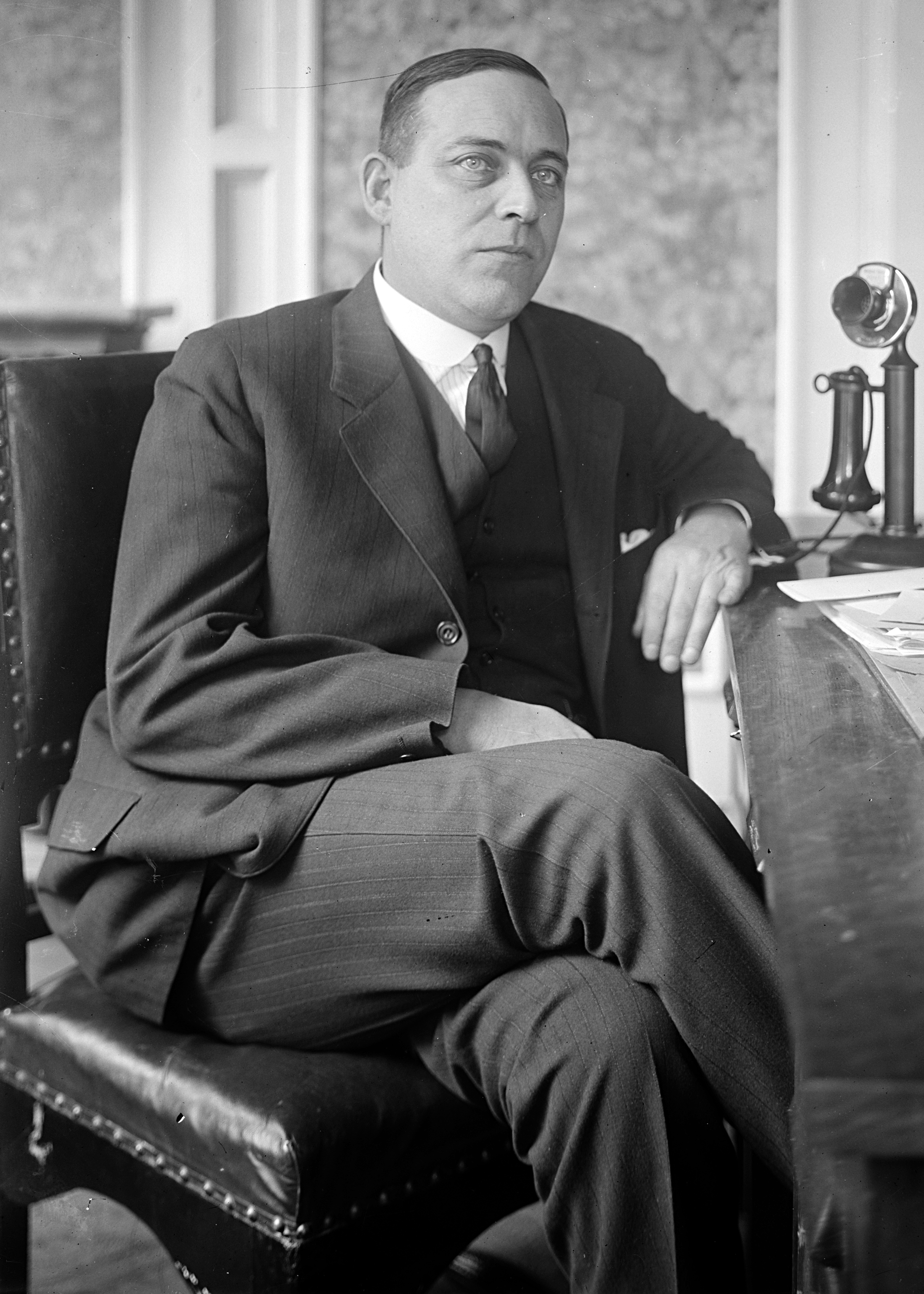 Norman J. Gould, US Representative from New York